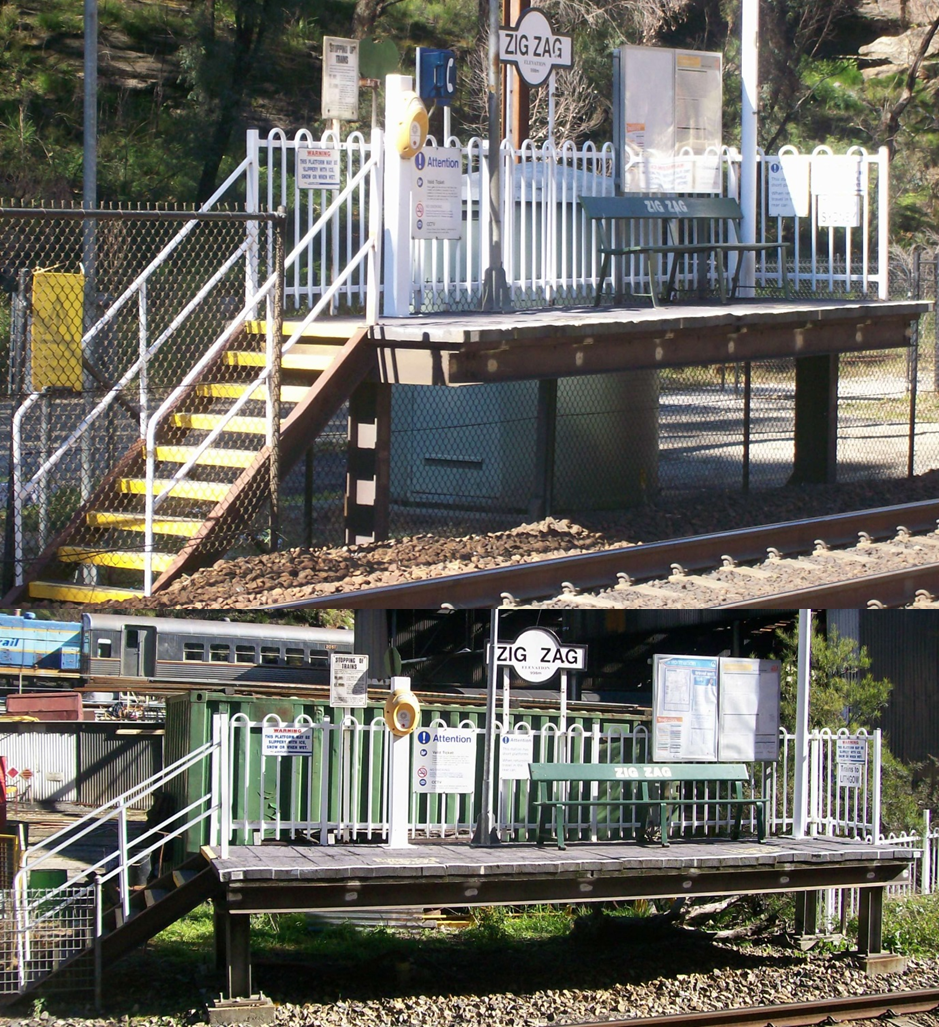 Zig Zag railway station platforms